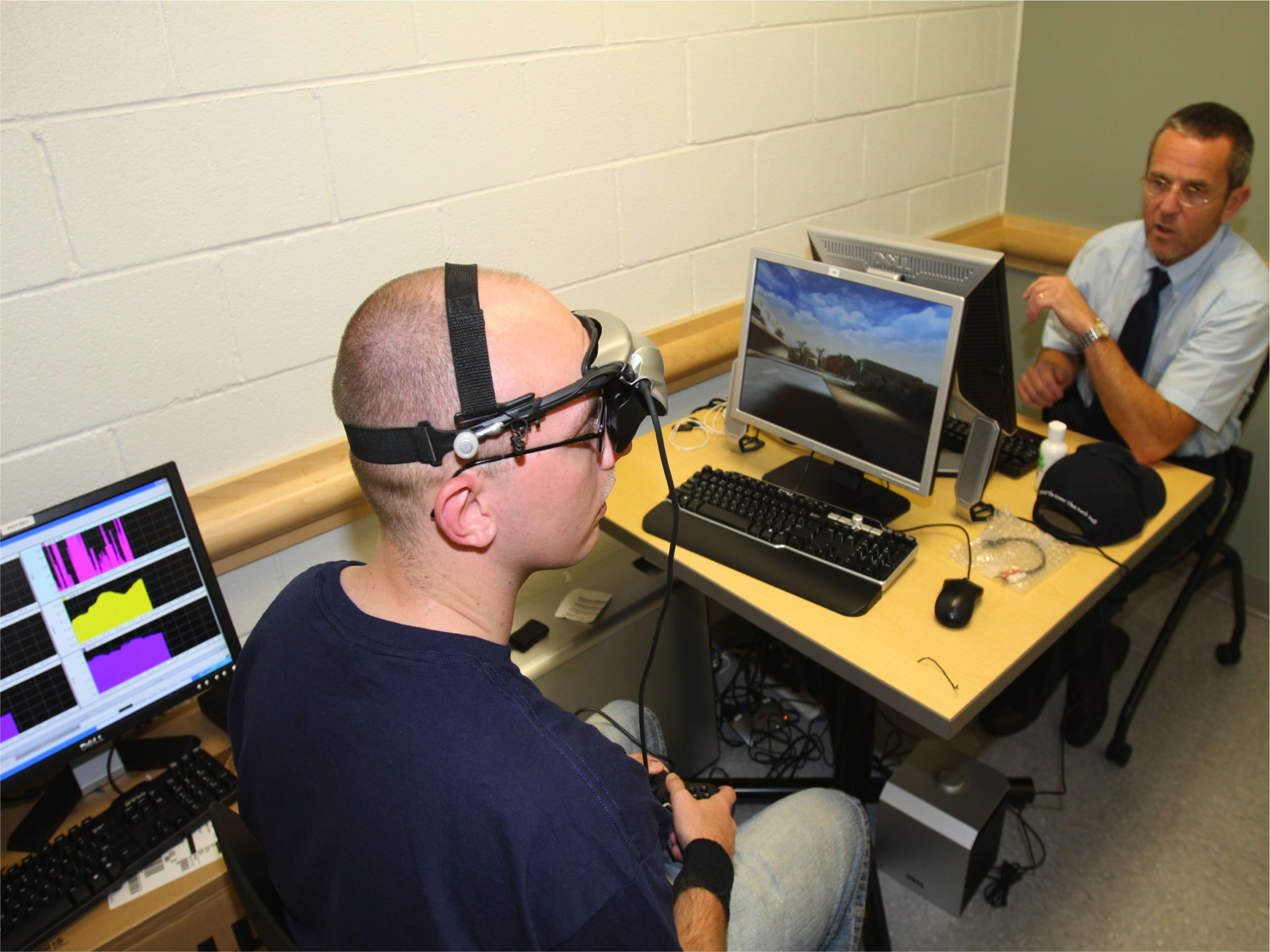 Through a DoD grant, Dr. Carmen Russoniello of East Carolina University is working toward a portable biofeedback training program that could prevent or reduce post-traumatic stress symptoms. (Photo by Dr. Carmen Russoniello)